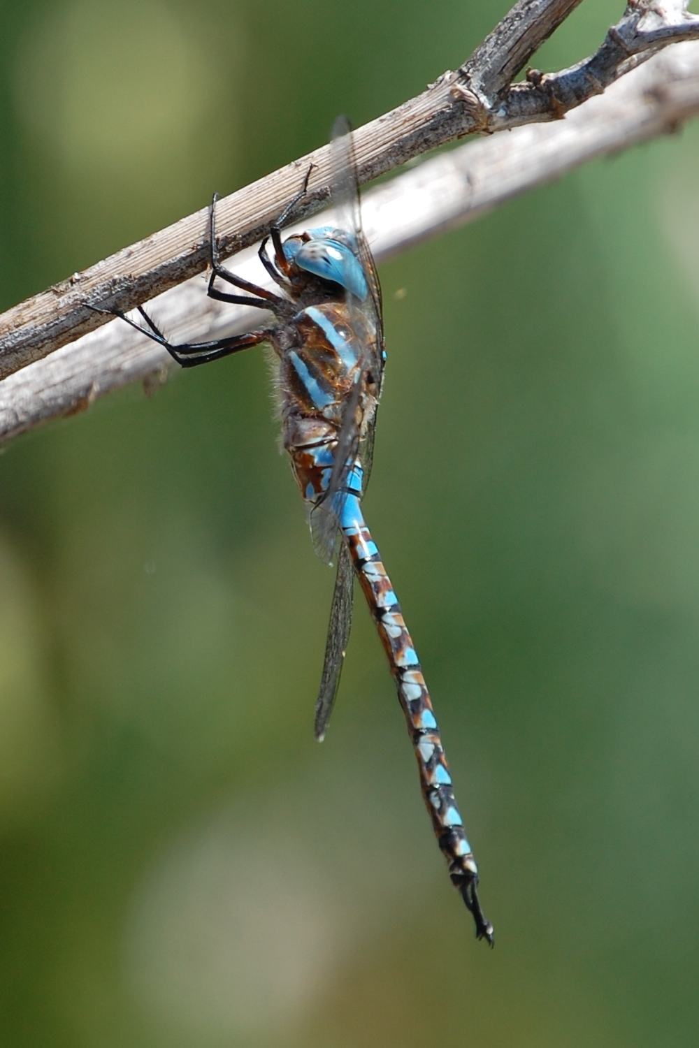 Blue-Eyed Darner. Male